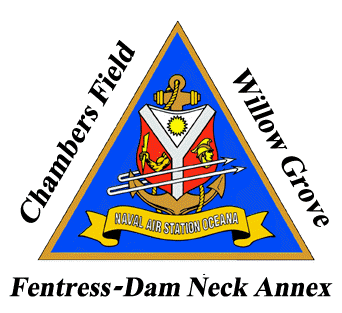 Insignia of the U.S. Naval Air Station Oceana, Virginia (USA).